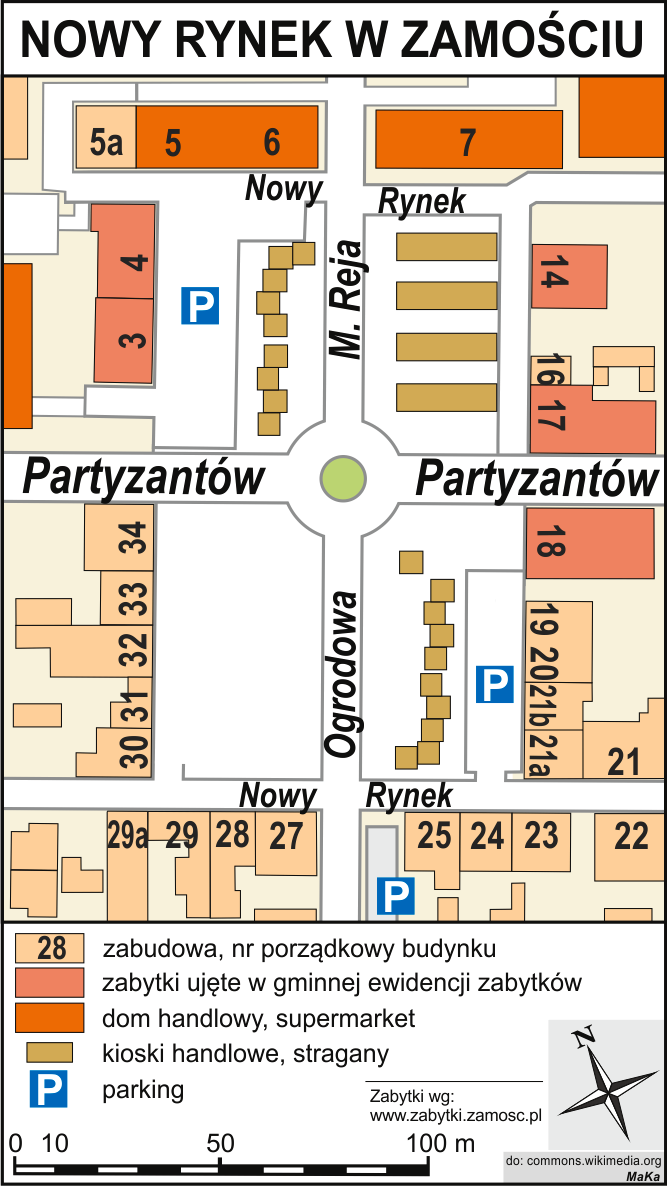 Plan of New Market Square in Zamość